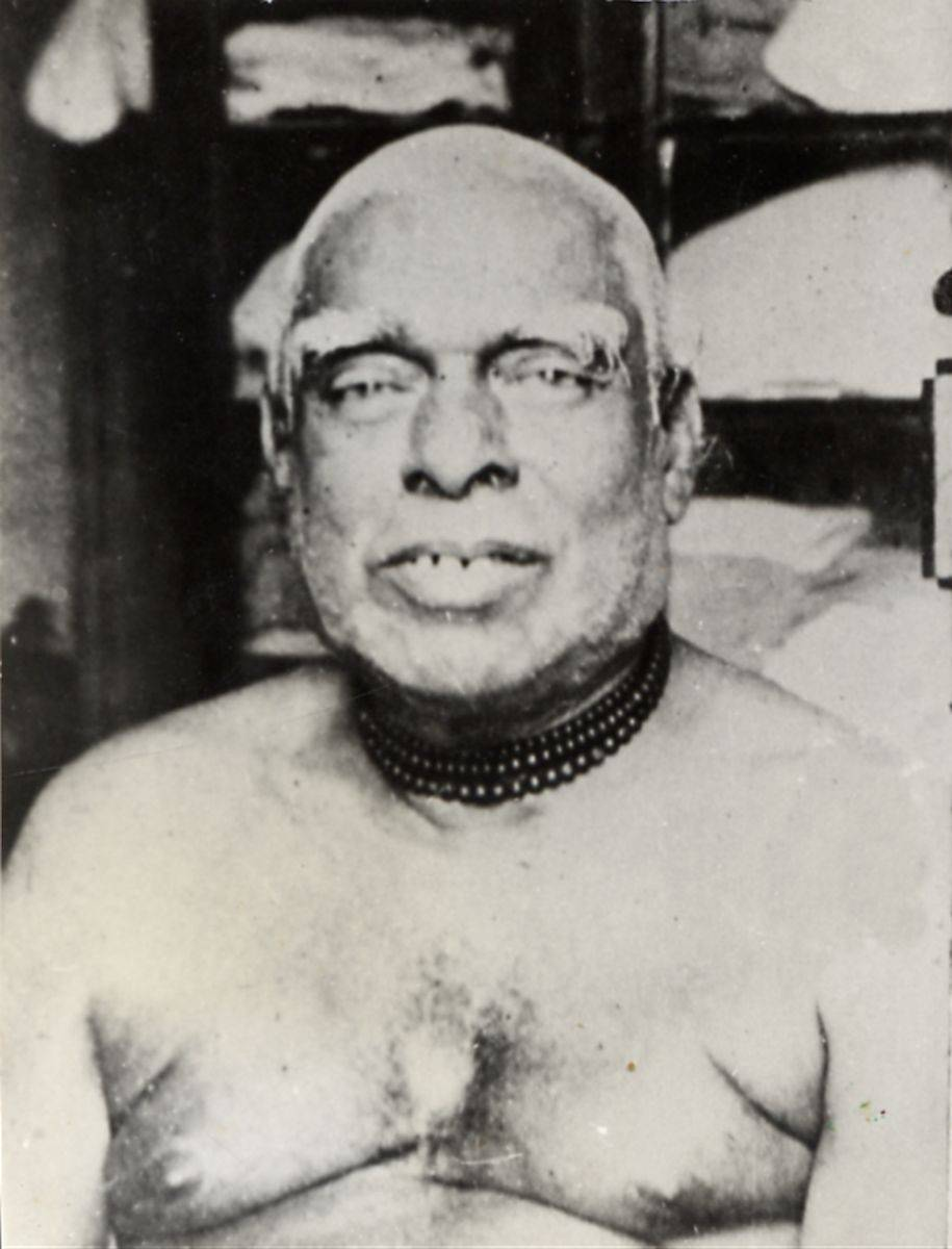 Bhaktivinoda Thakur as a Vaishnava recluse circa 1910.